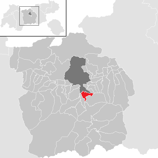 District Innsbruck Land